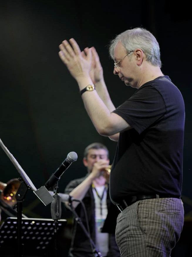 Georg Gräwe, moers festival 2010